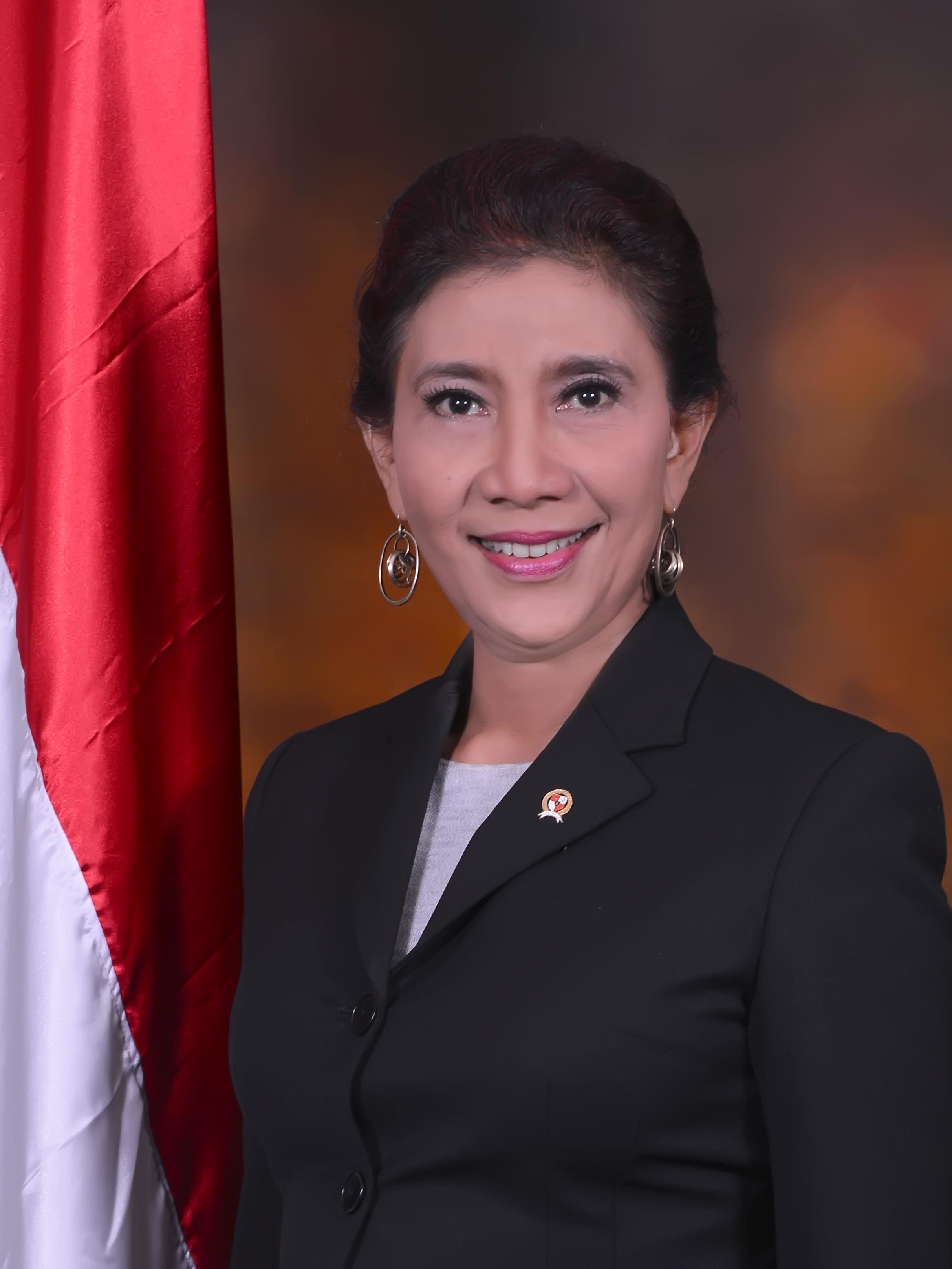 Susi Putjiasturi, Indonesian businesswoman